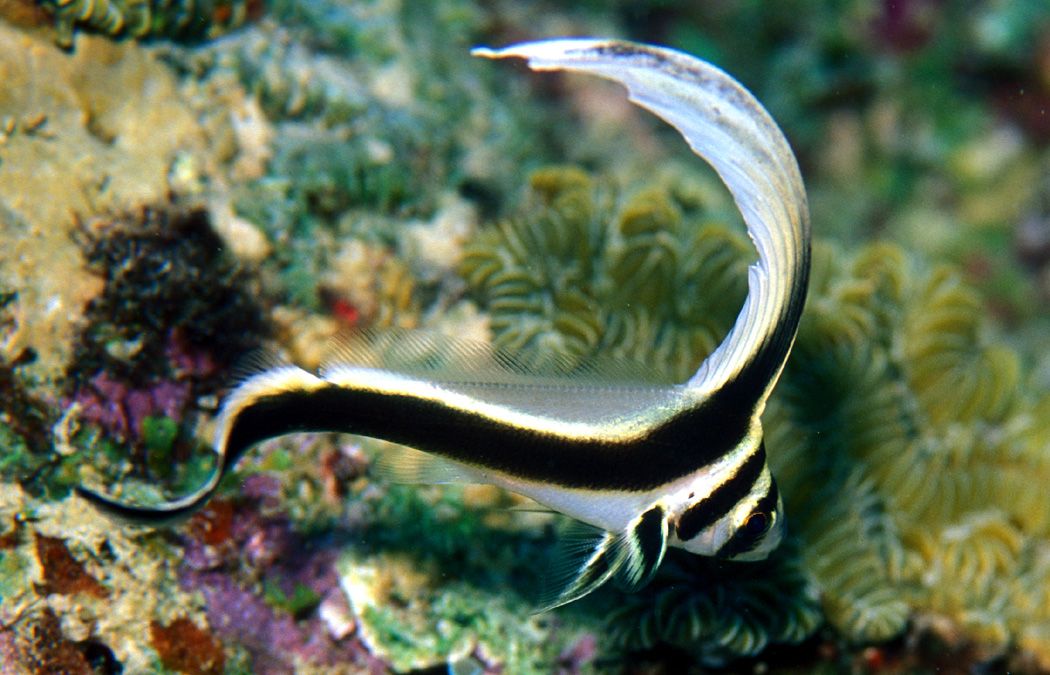 This odd little fish (Equetus punctatus) proudly waves its tiny "dorsal banner" over the coral reef.